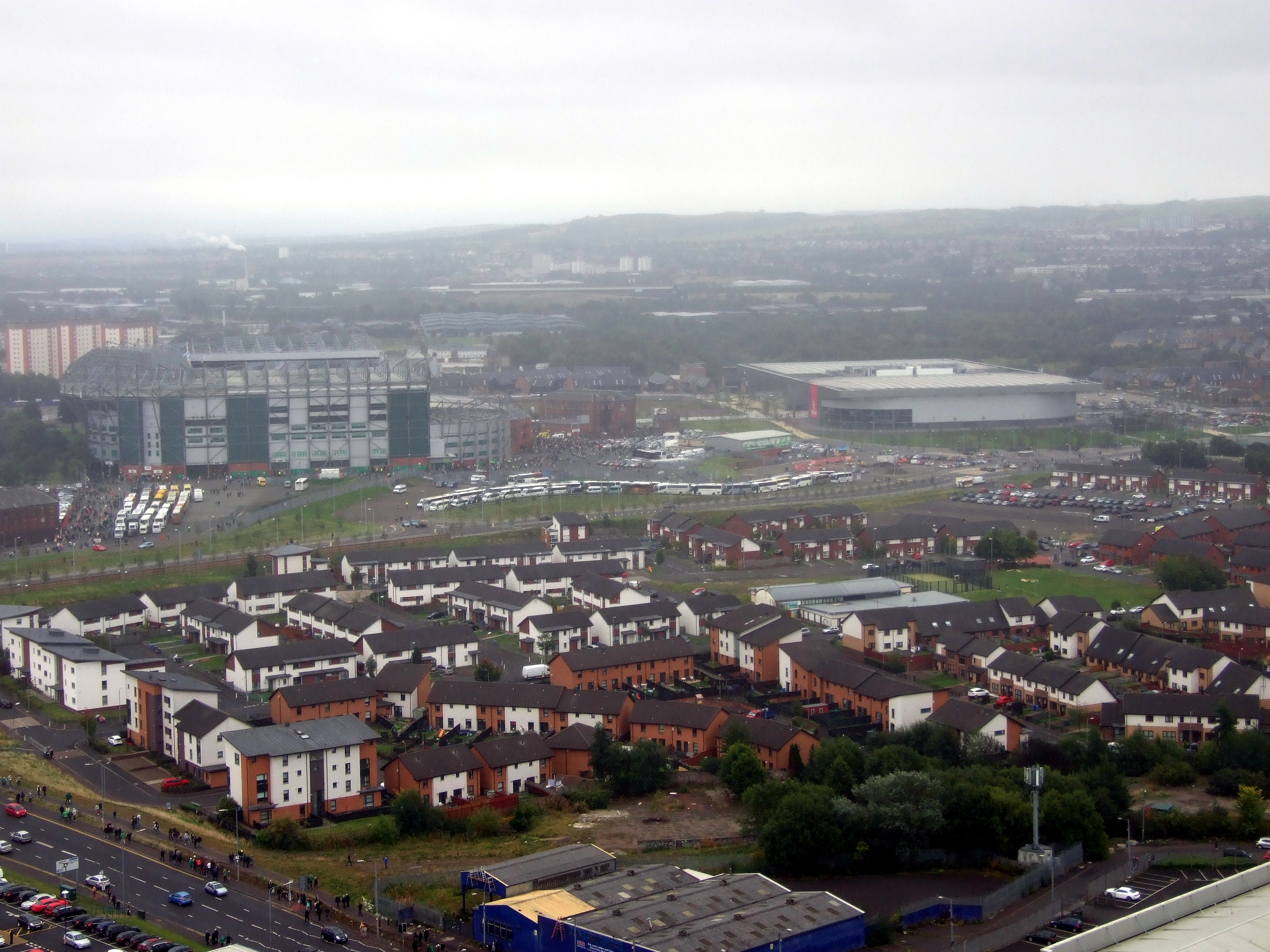 Celtic Park and Emirates Arena from Whitevale Tower. A Celtic game was being played, as can be seen by the coaches outside the stadium.